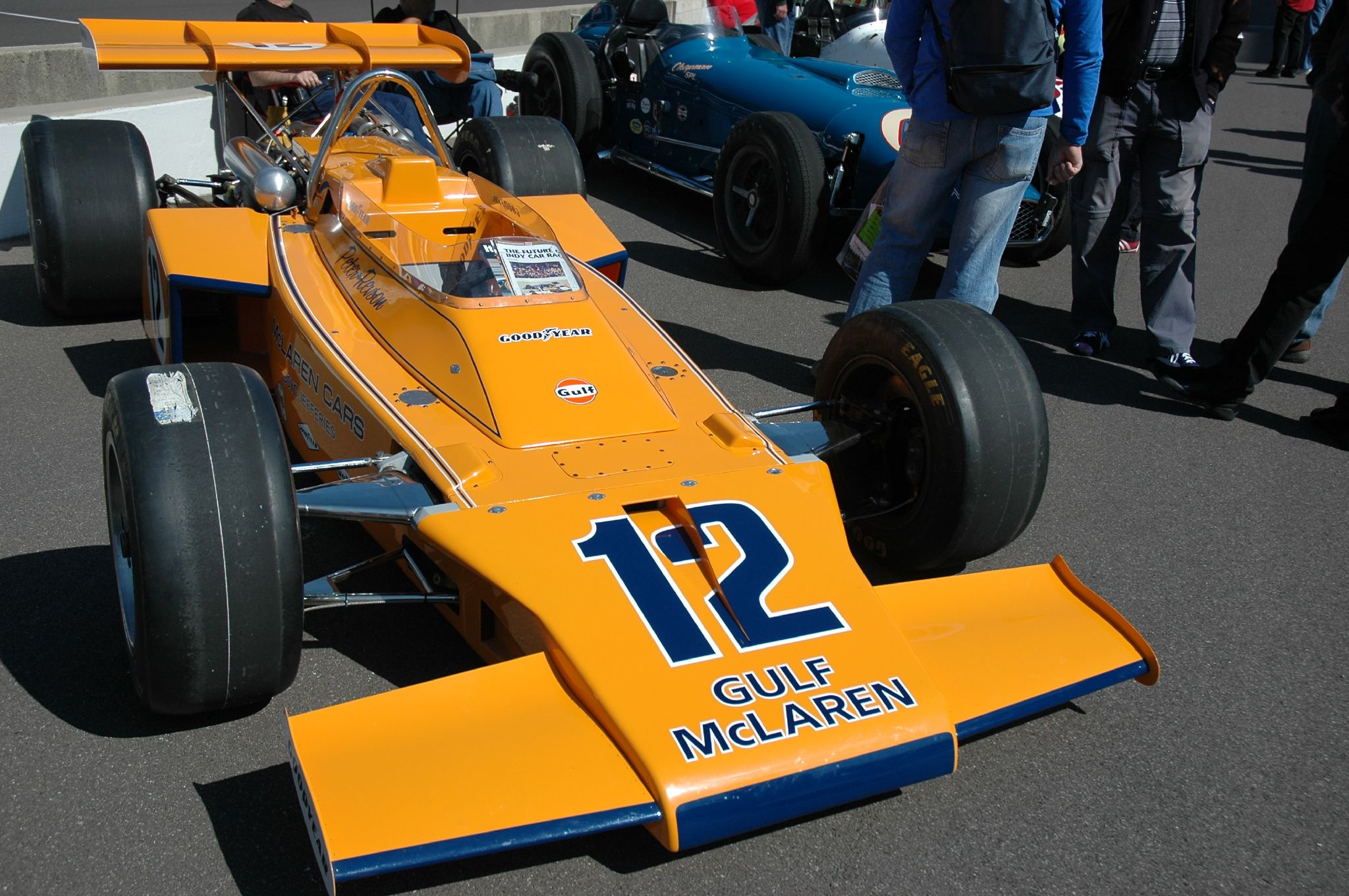 The McLaren-Offy driven by Peter Revson in the 1973 Indianapolis 500.